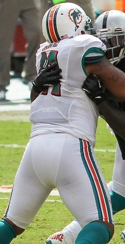 The Miami Dolphins vs the Oakland Raiders.